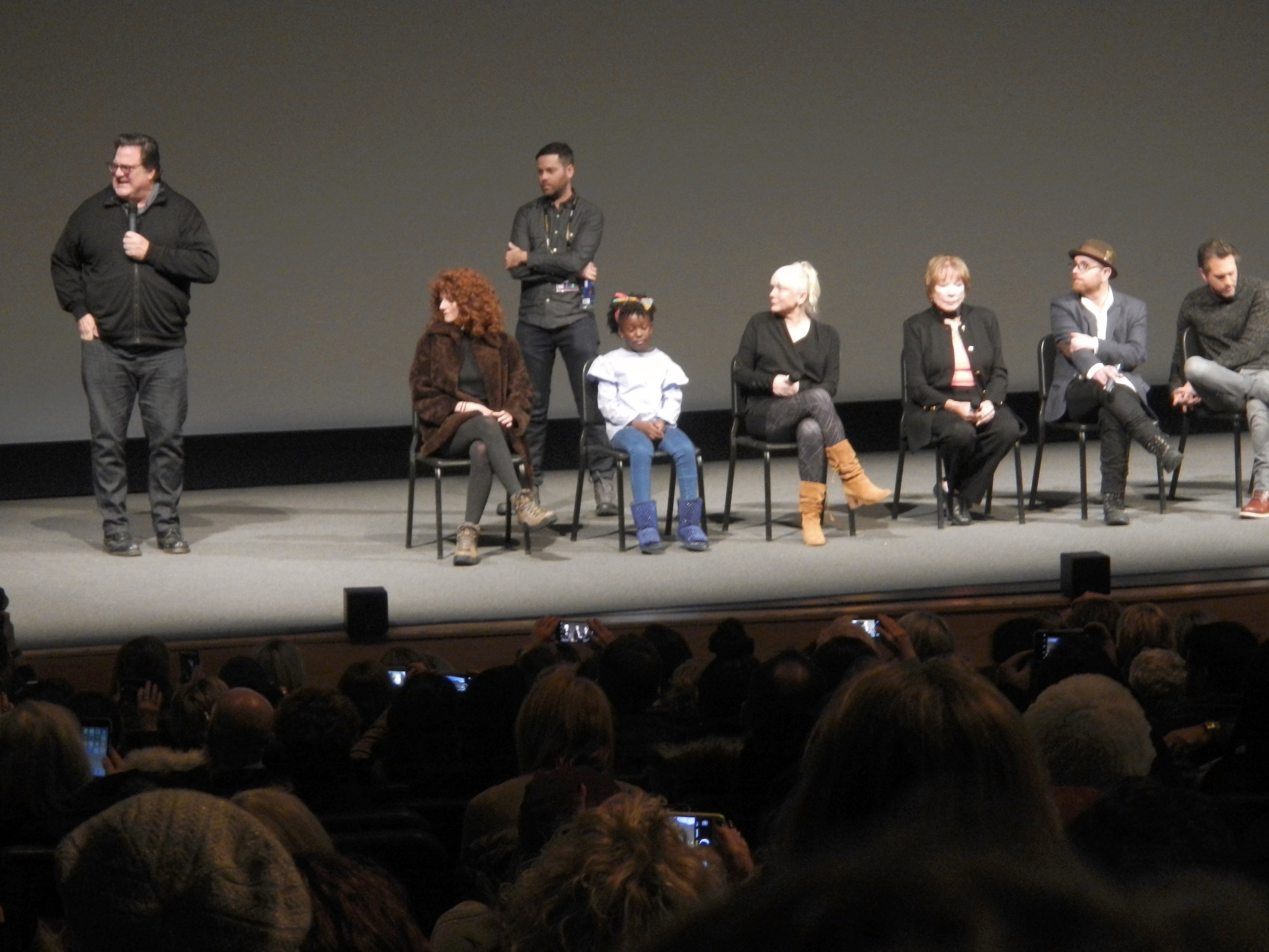 Sundance 2017, Park City UT